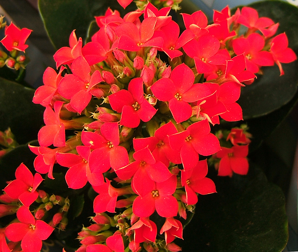 Flaming Katy